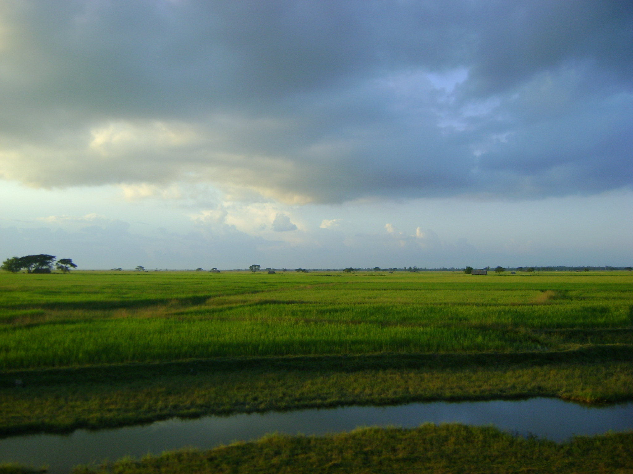 Burma's paddy field